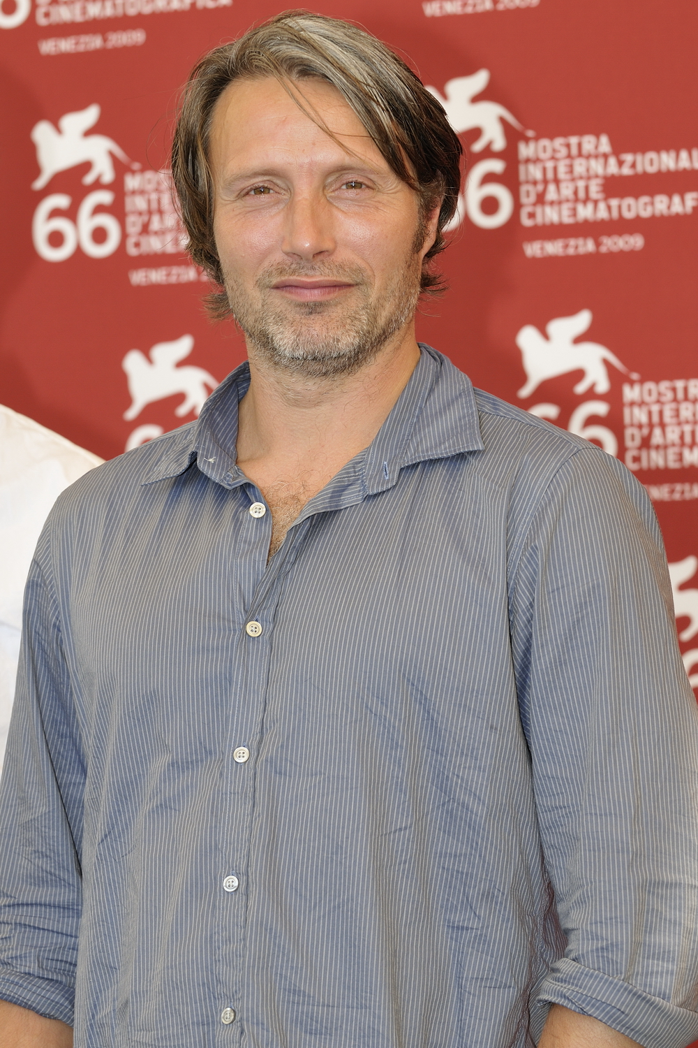 Mads Mikkelsen at 2009 Venice Film Festival